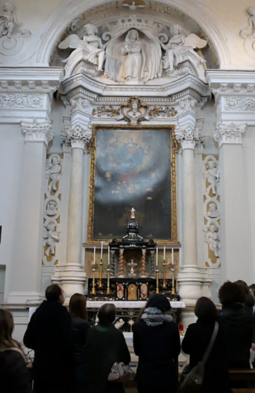 Internal